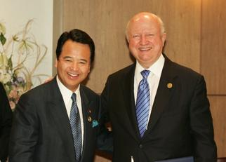 Minister of Economy, Trade and Industry Akira Amari met Secretary of Energy Samuel Bodman in Aomori City, Aomori Prefecture on June 7, 2008.